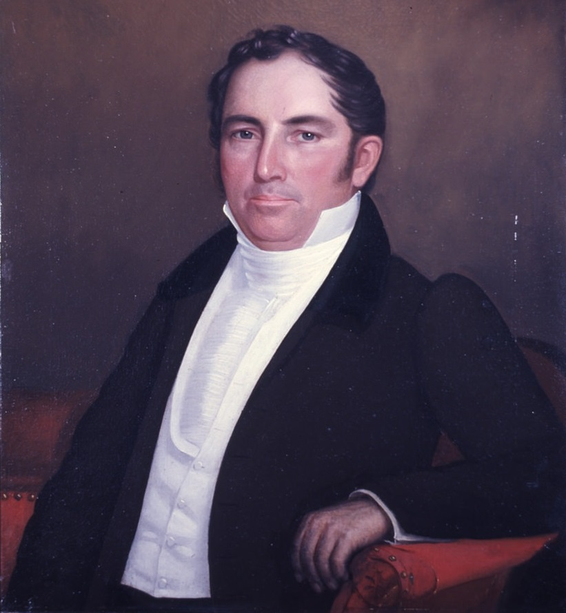 Abram M. Scott, Mississippi Governor.